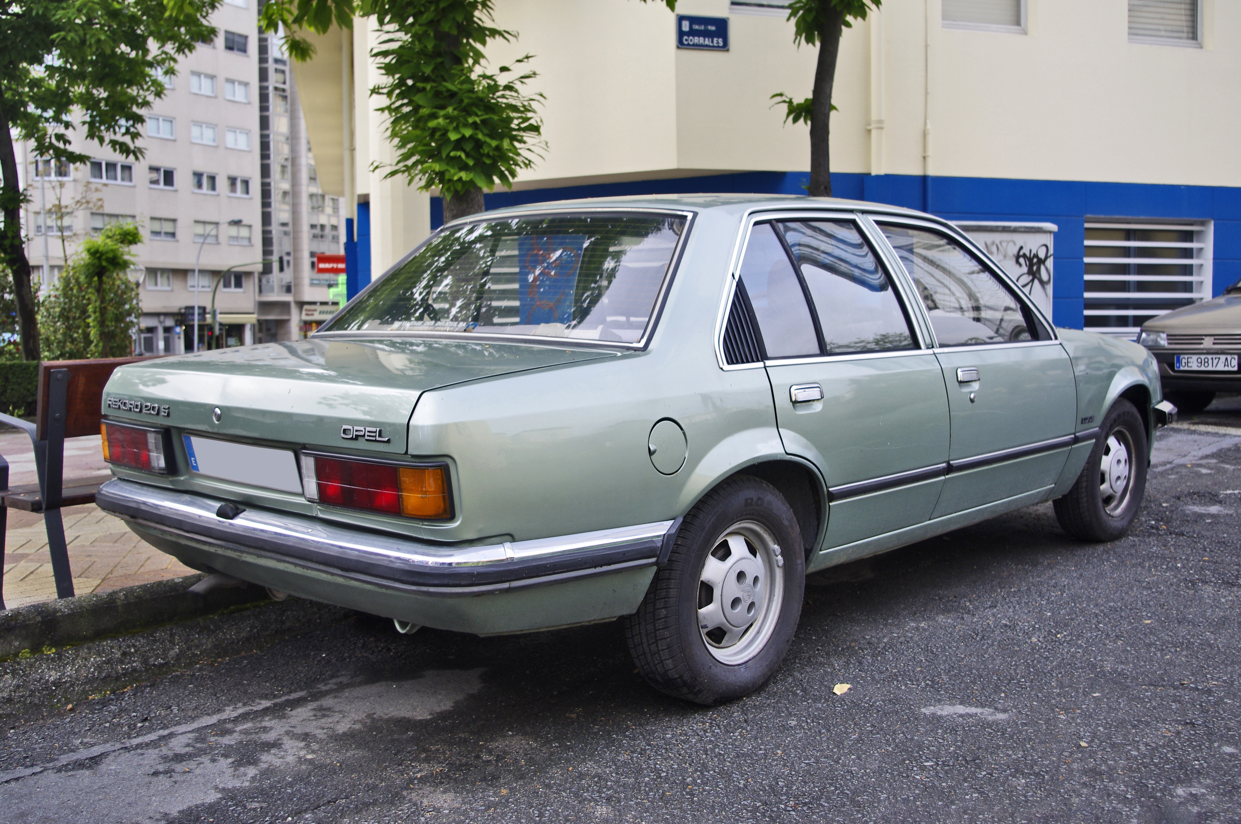 Not a very common car around here and its brother the Commodore is literally non existent. Shame, cause I quite like them a lot!